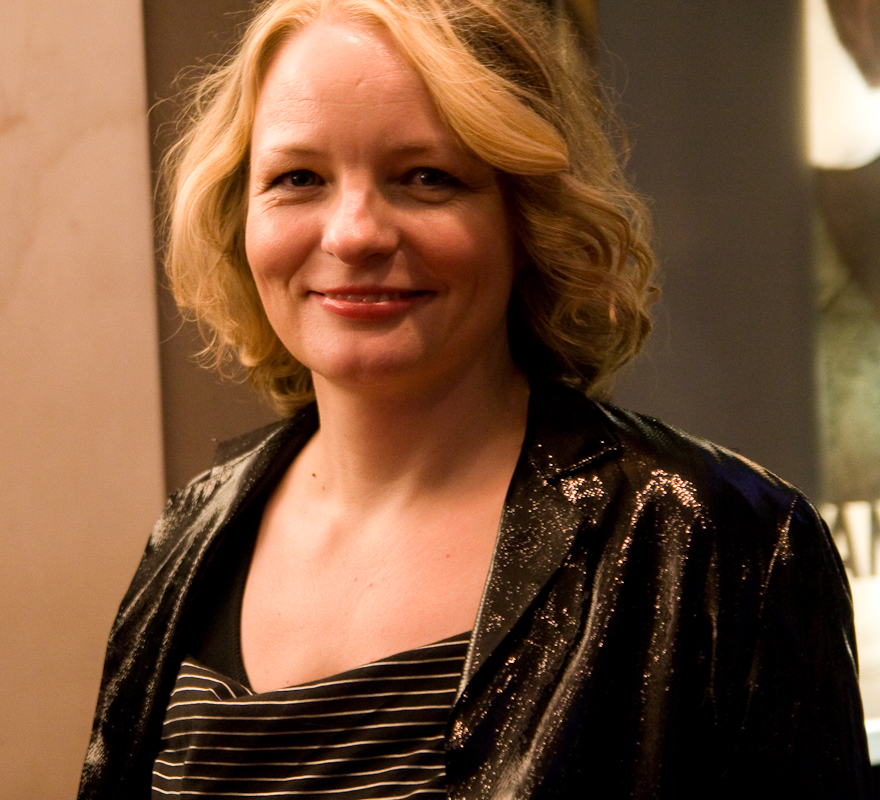 Cara Seymour at the New York film premiere of An Education in October 2009.